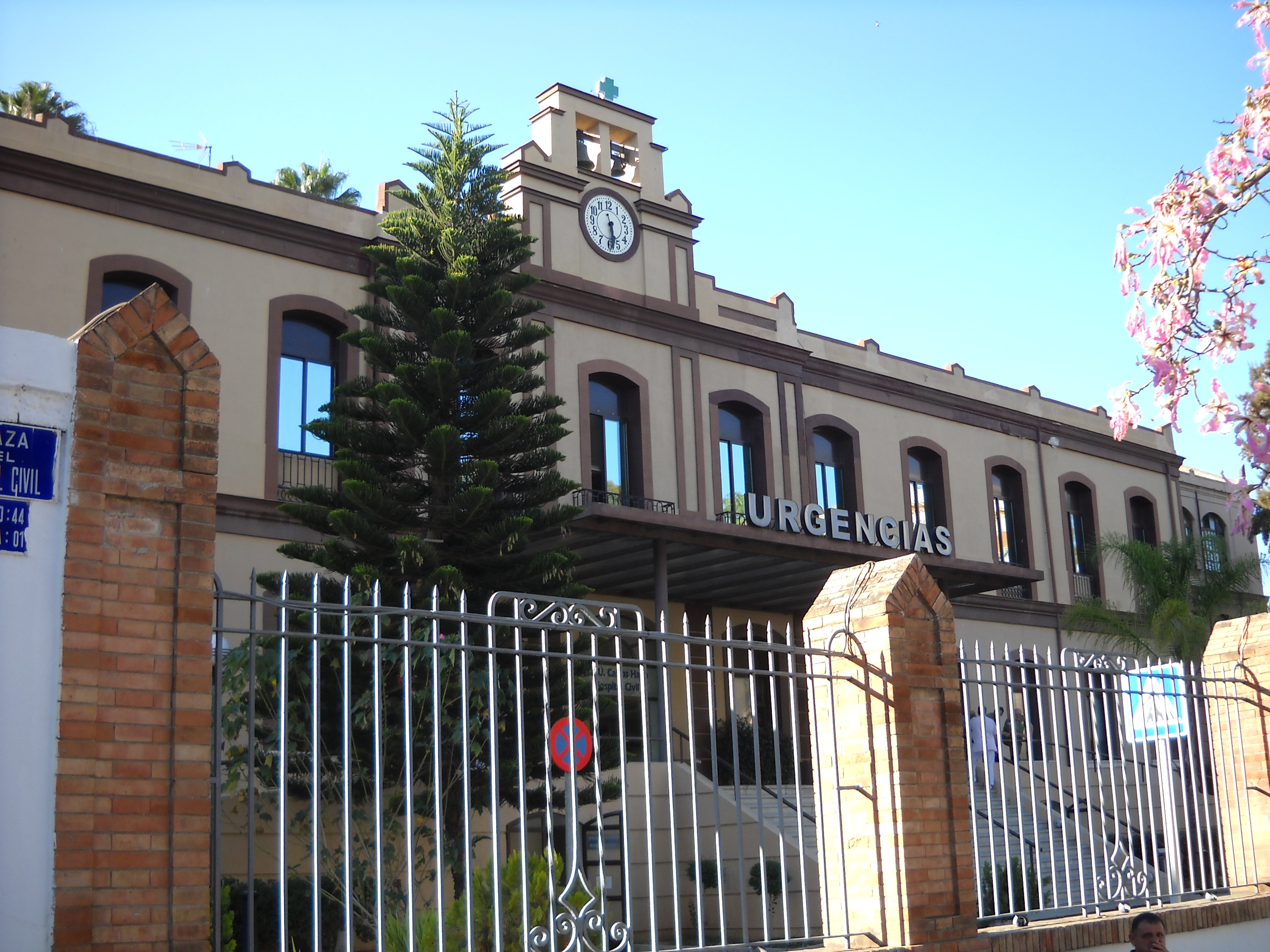 Málaga's Civil Hospital, Spain.